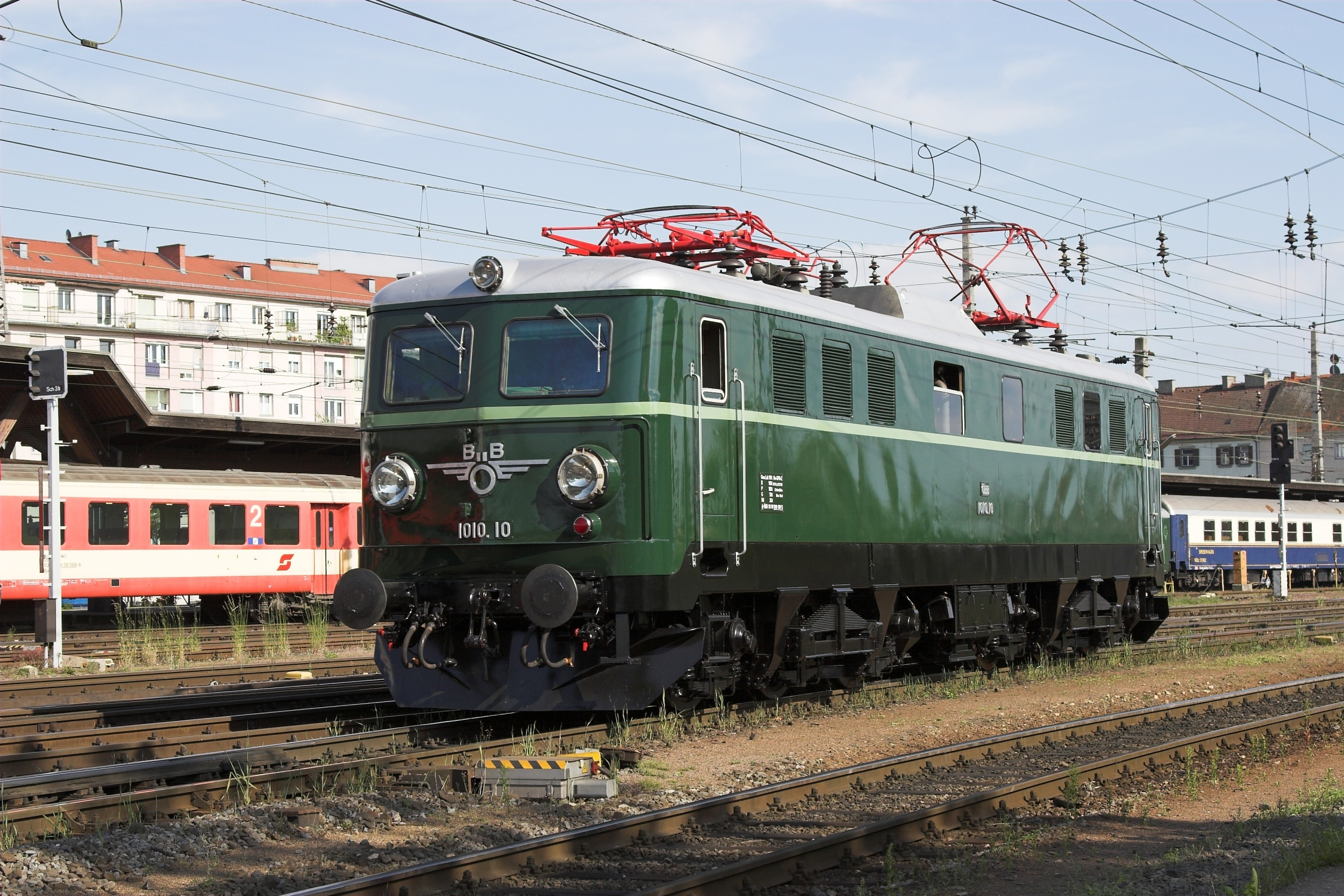 Historic ÖBB 1010.10 restored to nearly original appearance in Graz Hauptbahnhof